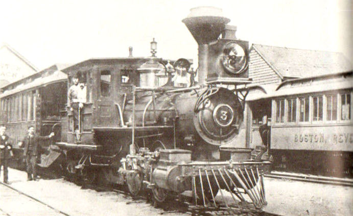 Boston, Revere Beach and Lynn Railroad locomotive Jupiter at Lynn terminal in 1876. The man at far left is believed to be Alpheus P. Blake, president of the company.